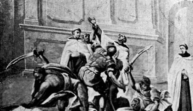 Massacre of Mstislav by Russian forces in 1654